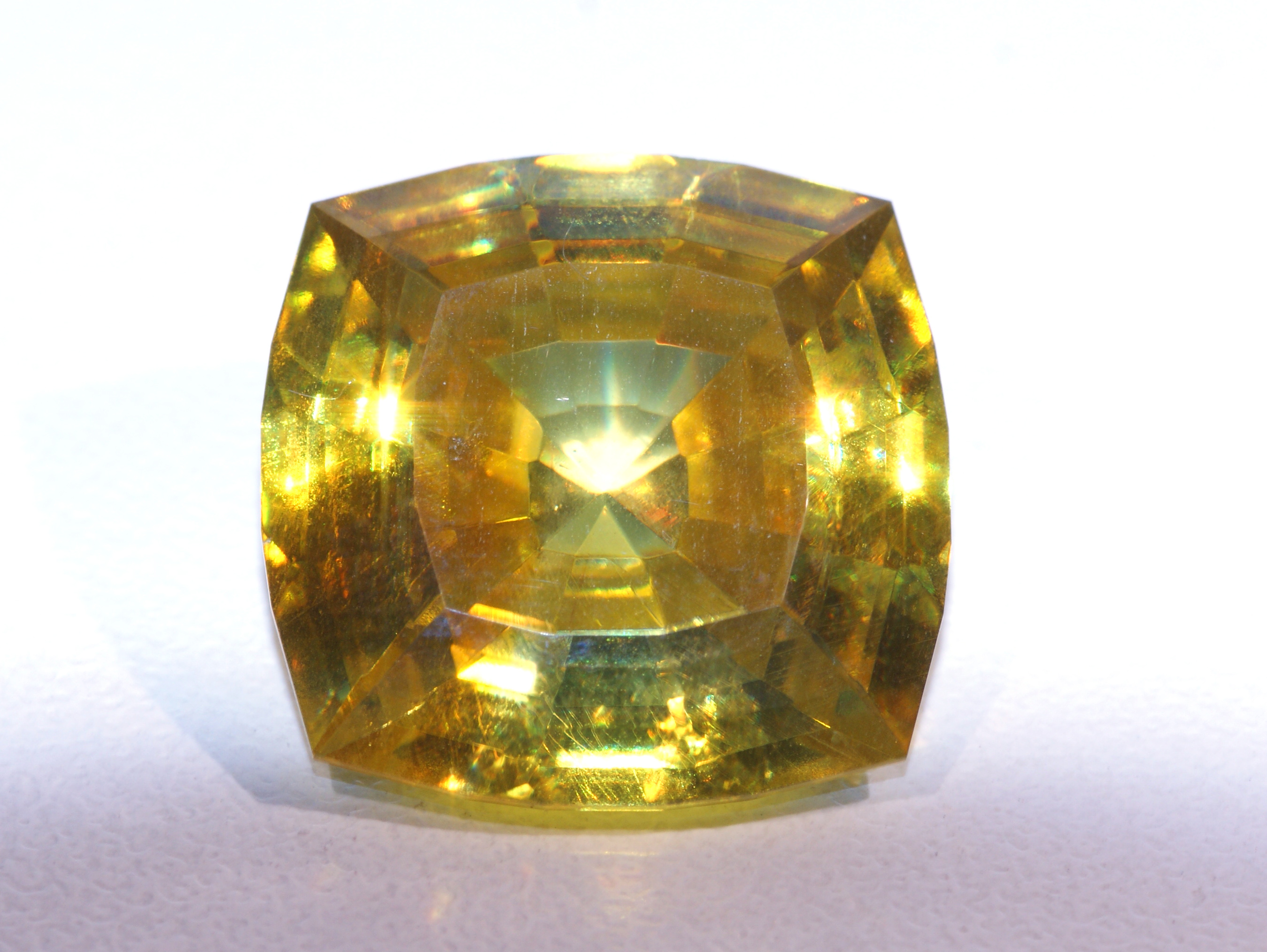 Sphalerite - Espagne. Mine las Manforas, Cantabria - Picos de Europa